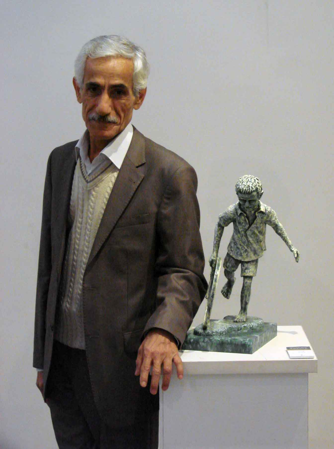 Seyedhosseinmousavinejad